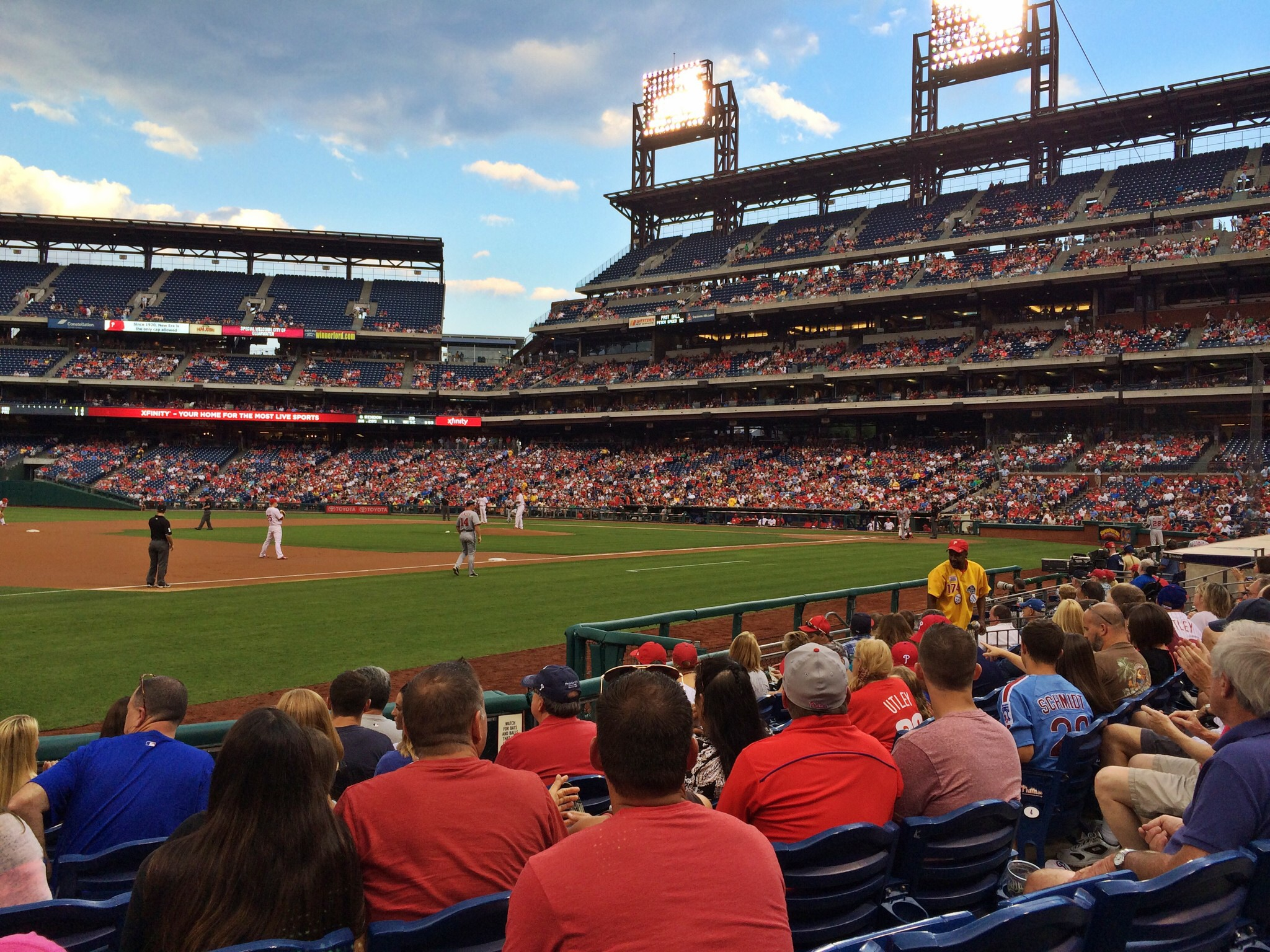 Citizens Bank Park from first base side